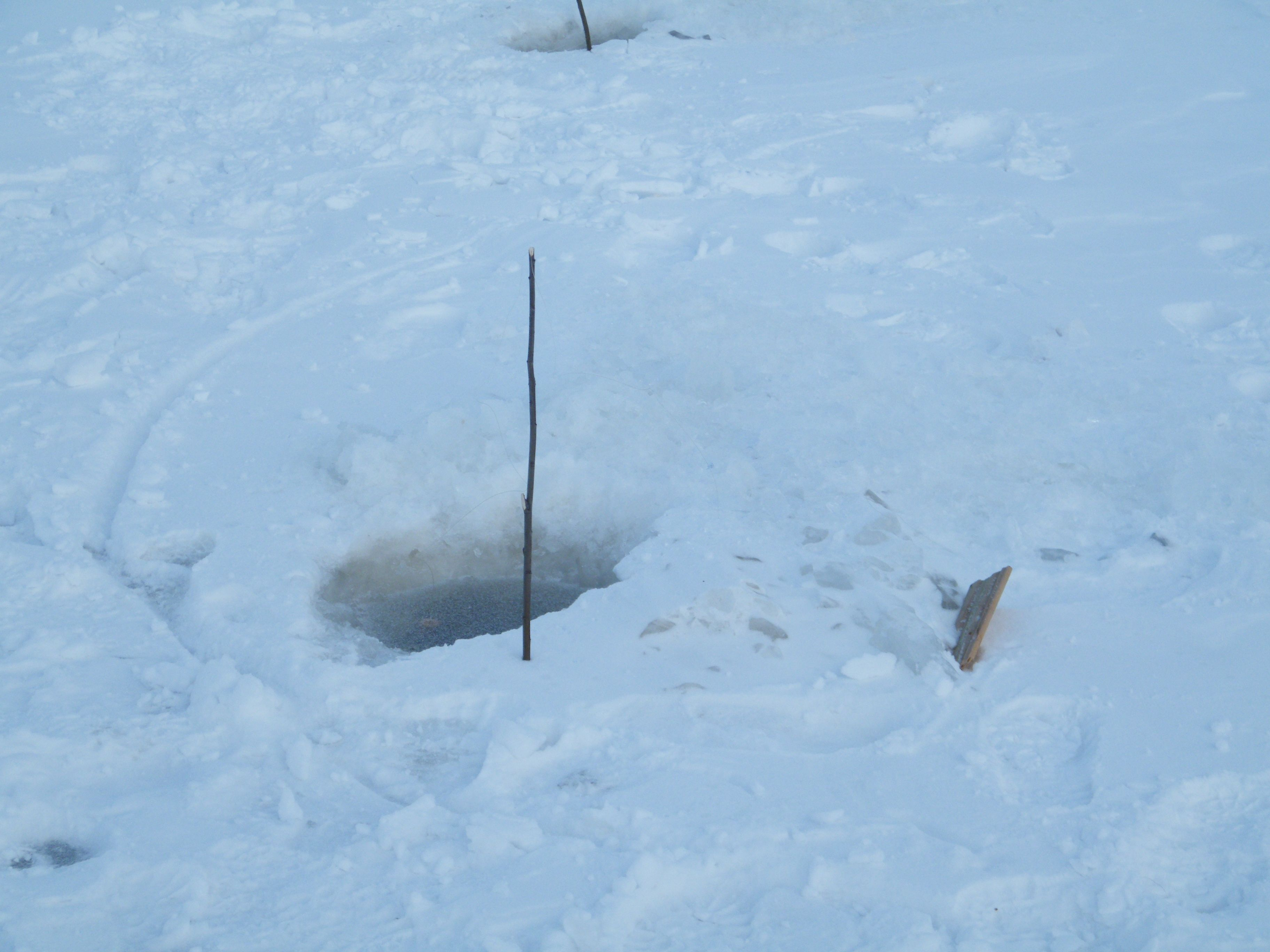 Жерлица